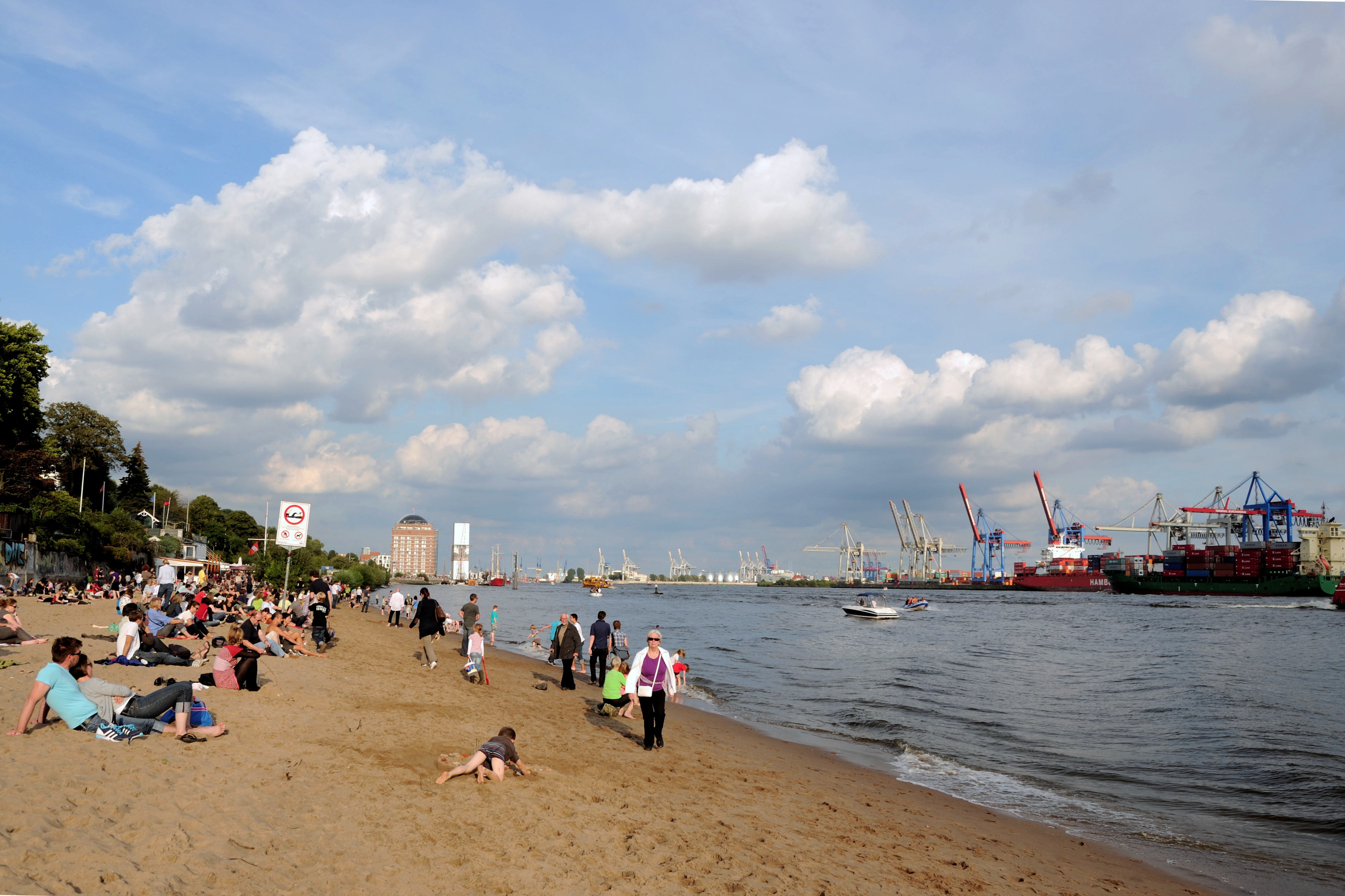 Picture taken in Hamburg. Port of Hamburg.